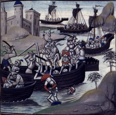 Bataille d'Alexandrie (1173); Battle or siege of Alessandria.